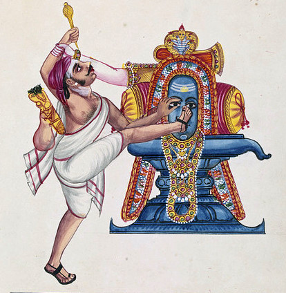 "The Hunter, Tinnen or Kannappa in the act of digging out his second eye. From the top of the lingam issues the arm of Shiva."